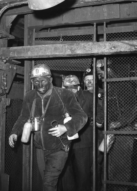 Miner's leaving the hoisting cage after work. Essen 1961, North-Rhine-Westfalia, Germany.